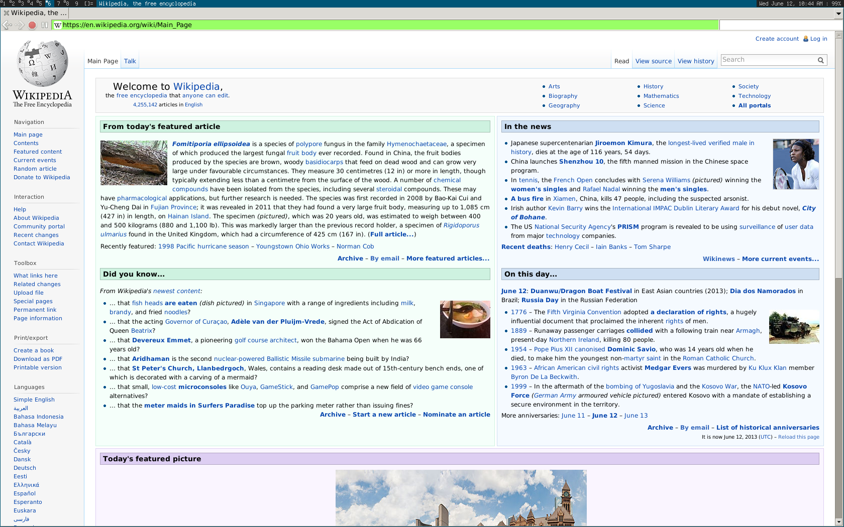 xombrero 1.6.0 showing Wikipedia's Main Page